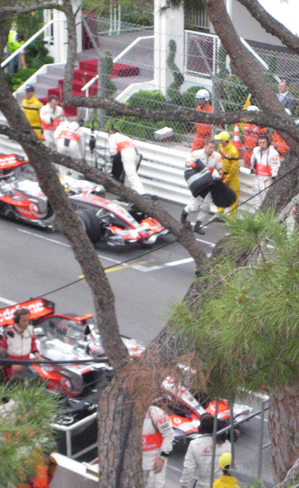 The starting grid before the 2007 Monaco Grand Prix. The tire warmers have just been taken off of Hamilton's car in the background.